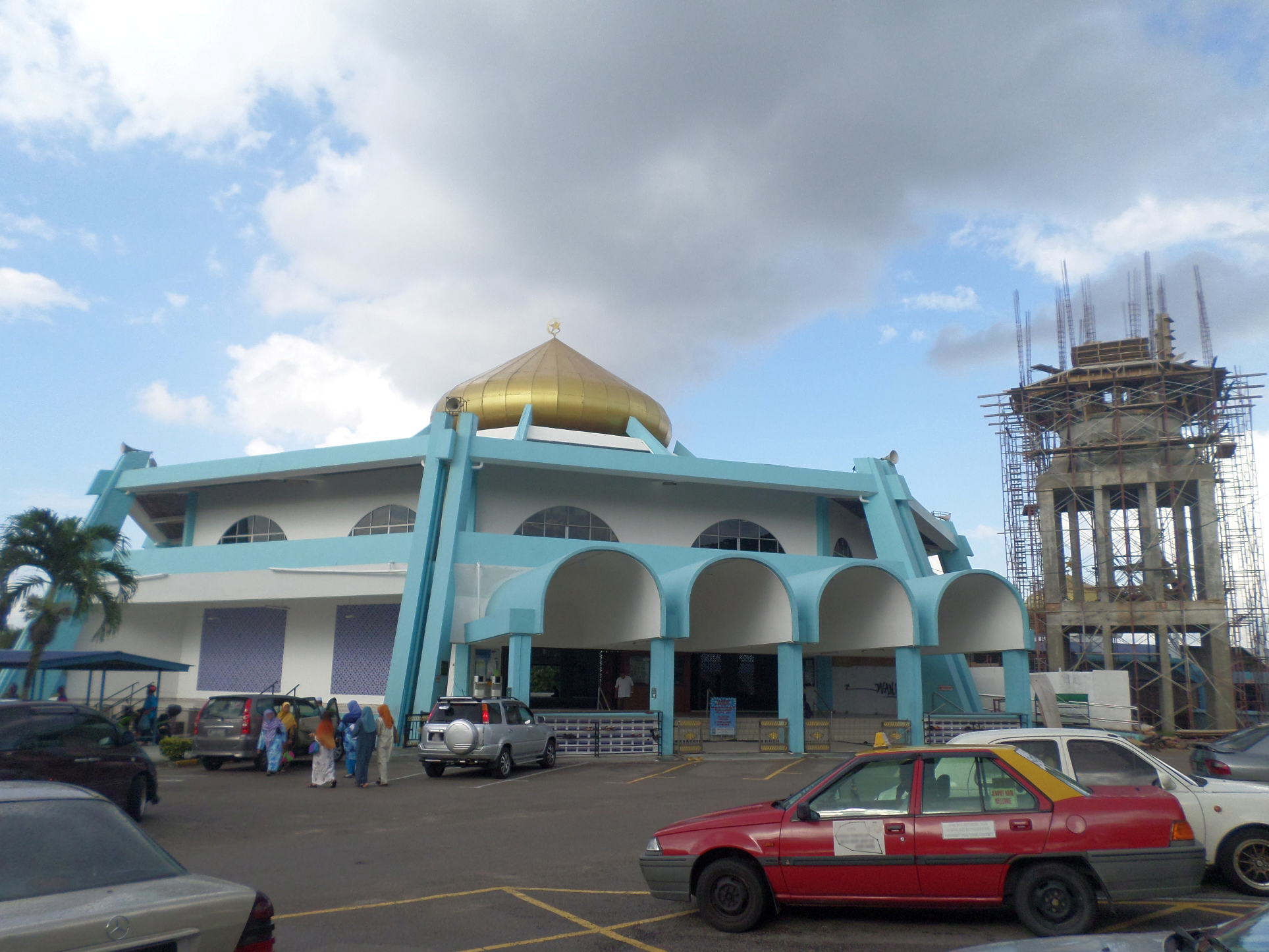 Majidee Malay Village Jamek Mosque, Majidee Malay Village, Johor Bahru, Johor, Malaysia